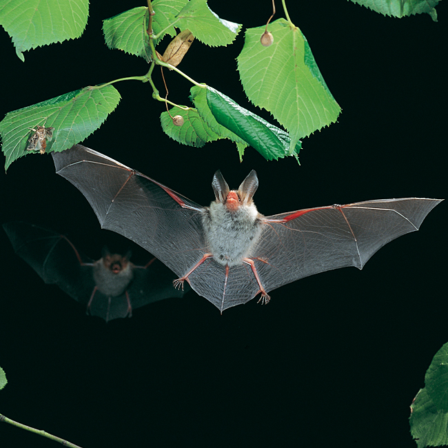 An echolocating bat (Myotis bechsteinii) avoiding collision with a plant while searching for a moth.